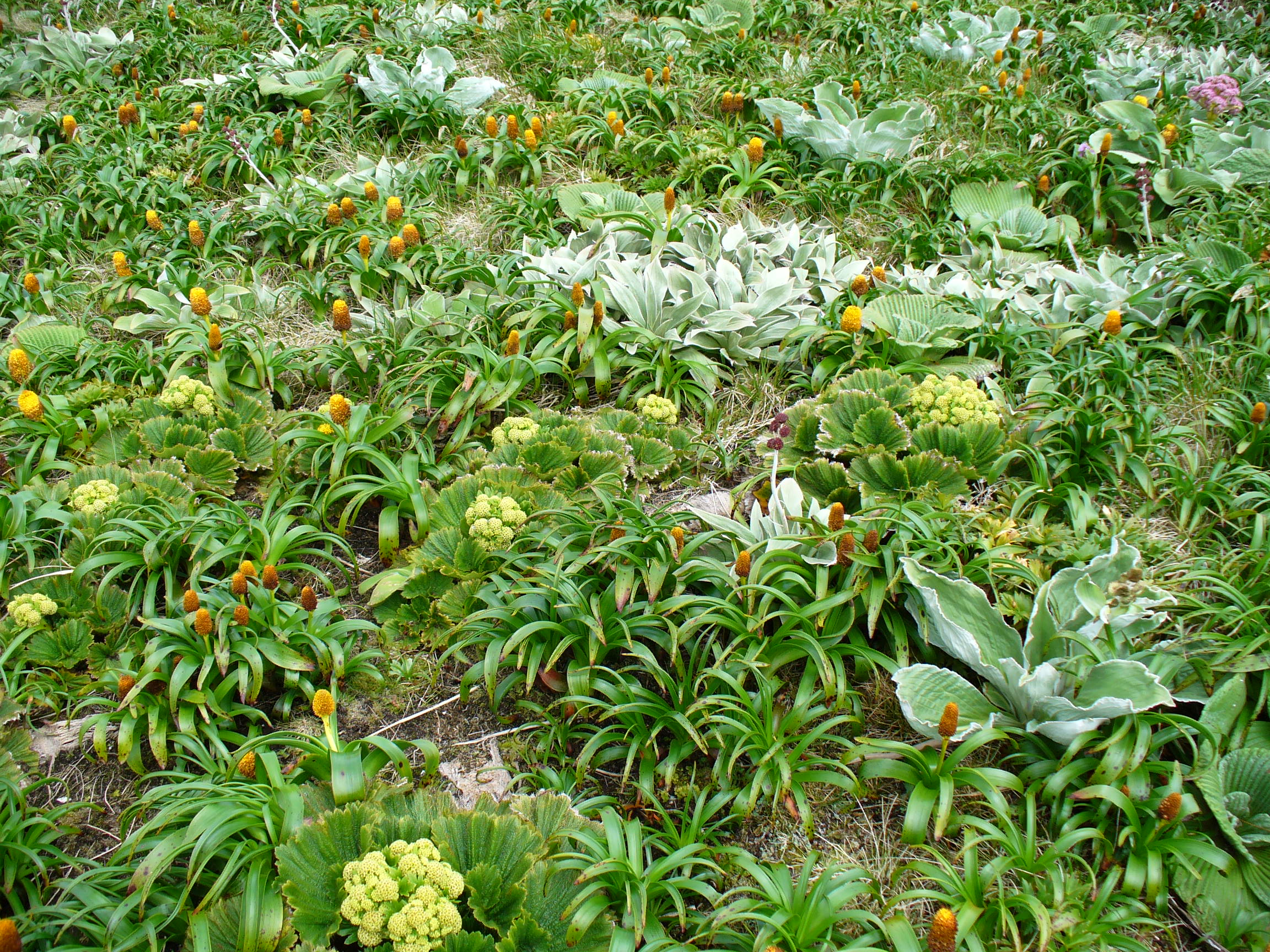 A megaherb community growing on Campbell Island, one of the sub-antarctic islands of New Zealand. The yellow flowers are Bulbinella rossi, the pink flowers are those of Anisotome latifolia and the creamy-white flowers are Stilbocarpa polaris, the Macquarie Island Cabbage. Also shown are two different species of Pleurophyllum.